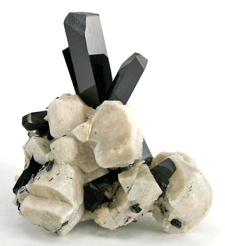 Aegirine, Orthoclase Locality: Mt Malosa, Zomba District, Malawi (Locality at ) A strikingly aesthetic 3-dimensional combination of jet-black aegirines (to 3 cm) splaying out from matrix of feldspar! The lustre, form, and sharpness of these crystals is WAY above par and most people consider this locale to be the world's finest source for the species...while this piece would be, in quality, right at the top of what has been found to date. 6.0 x 5.4 x 4.7 cm